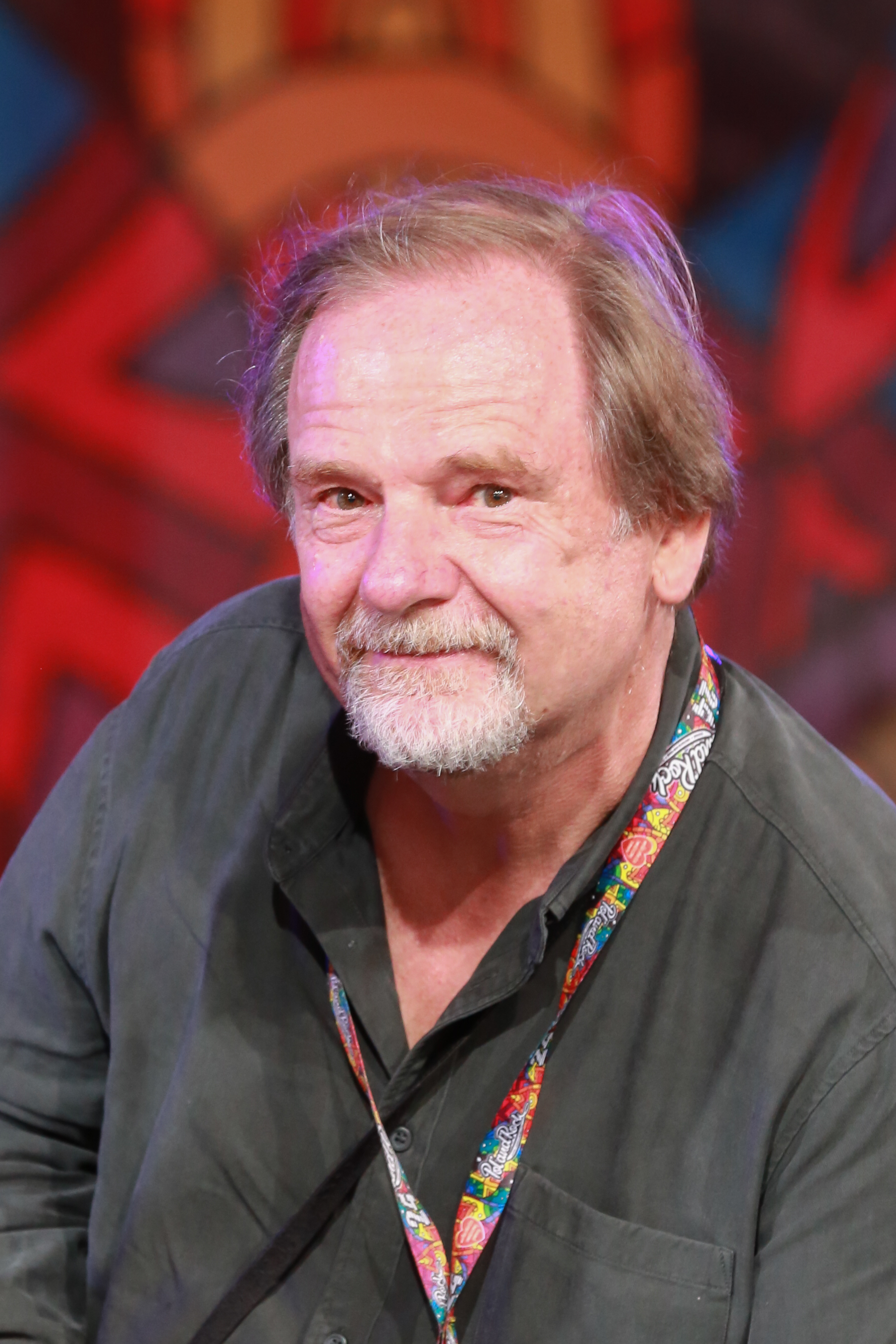 Pol'and'Rock Festival in 2018.